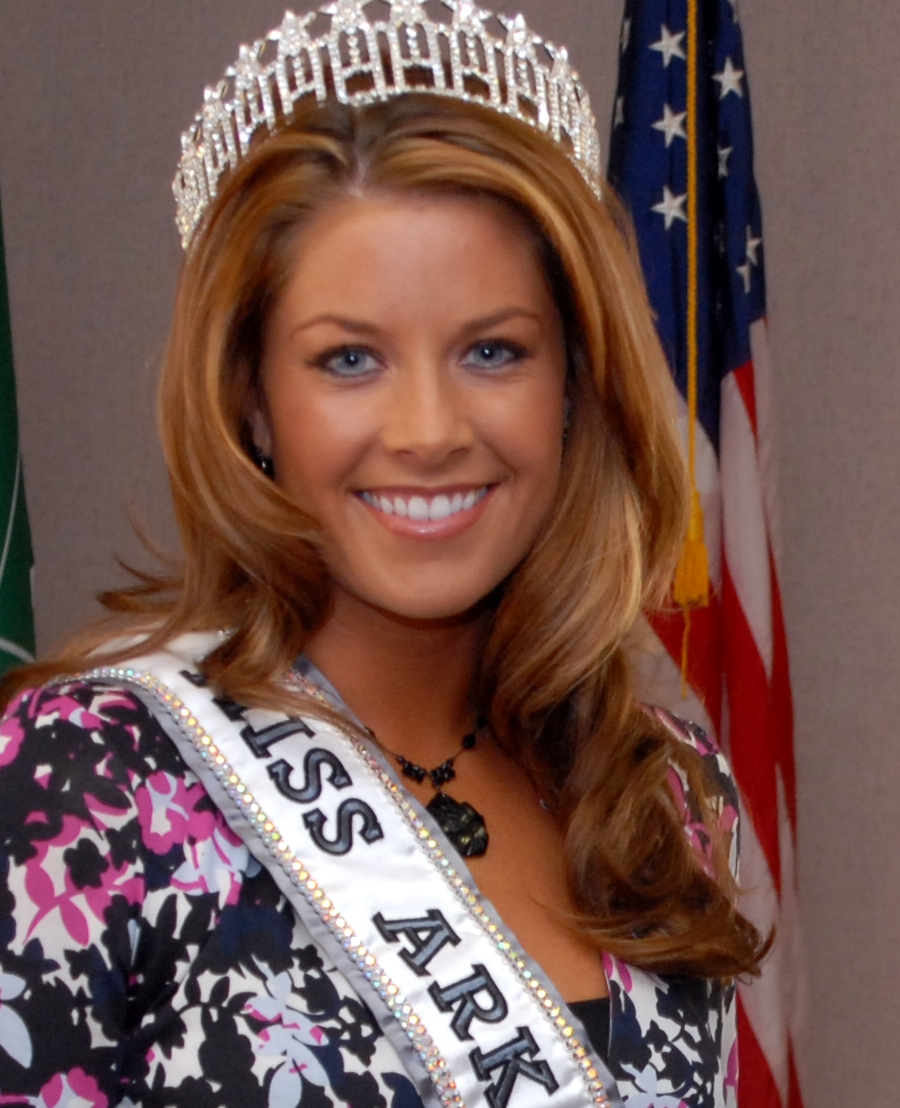 Kelly George, Miss Arkansas USA 2007, receives a proclamation from the Mayor of Sherwood, Arkansas